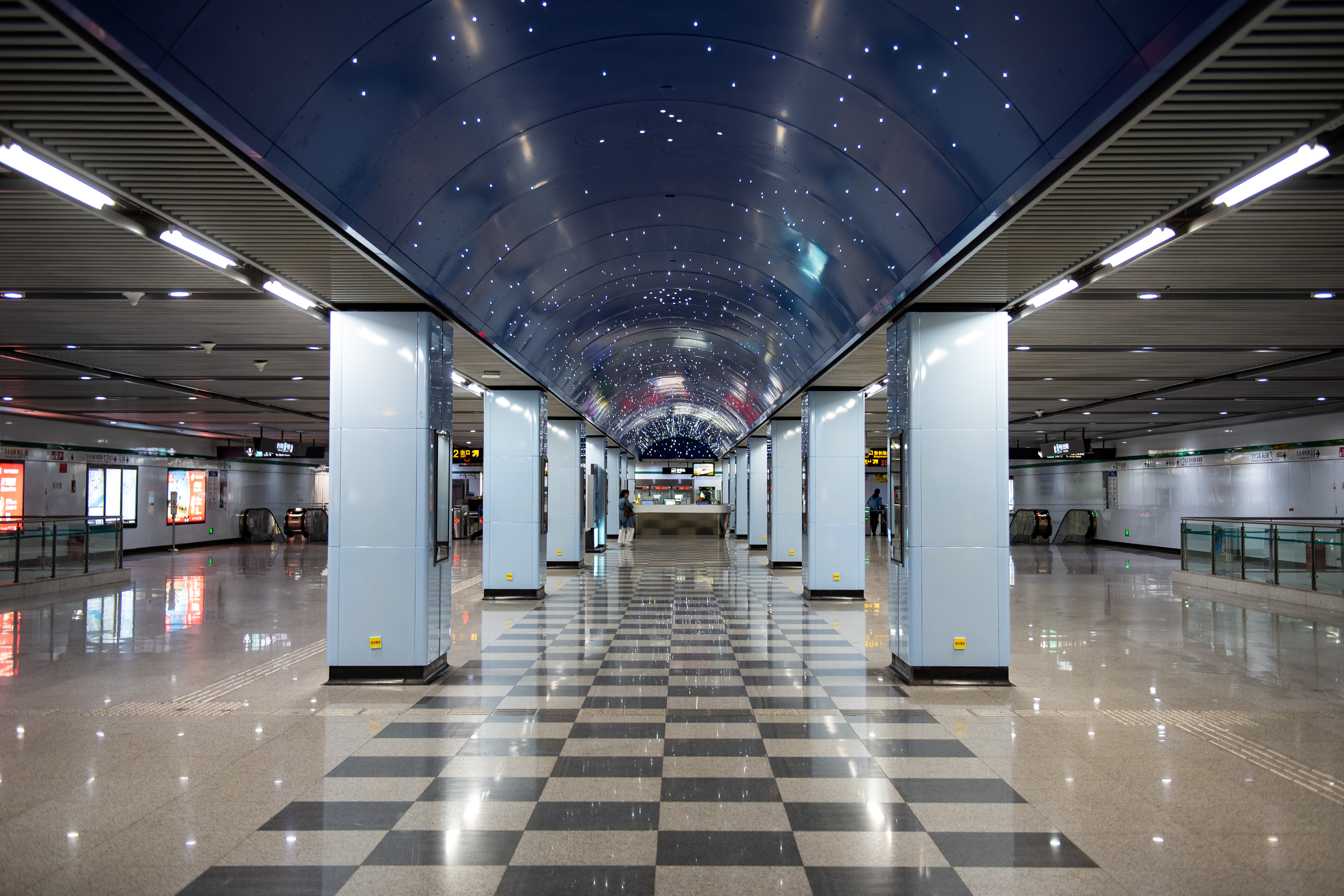 So, Huojian Wanyuan is not the first one to be starry...